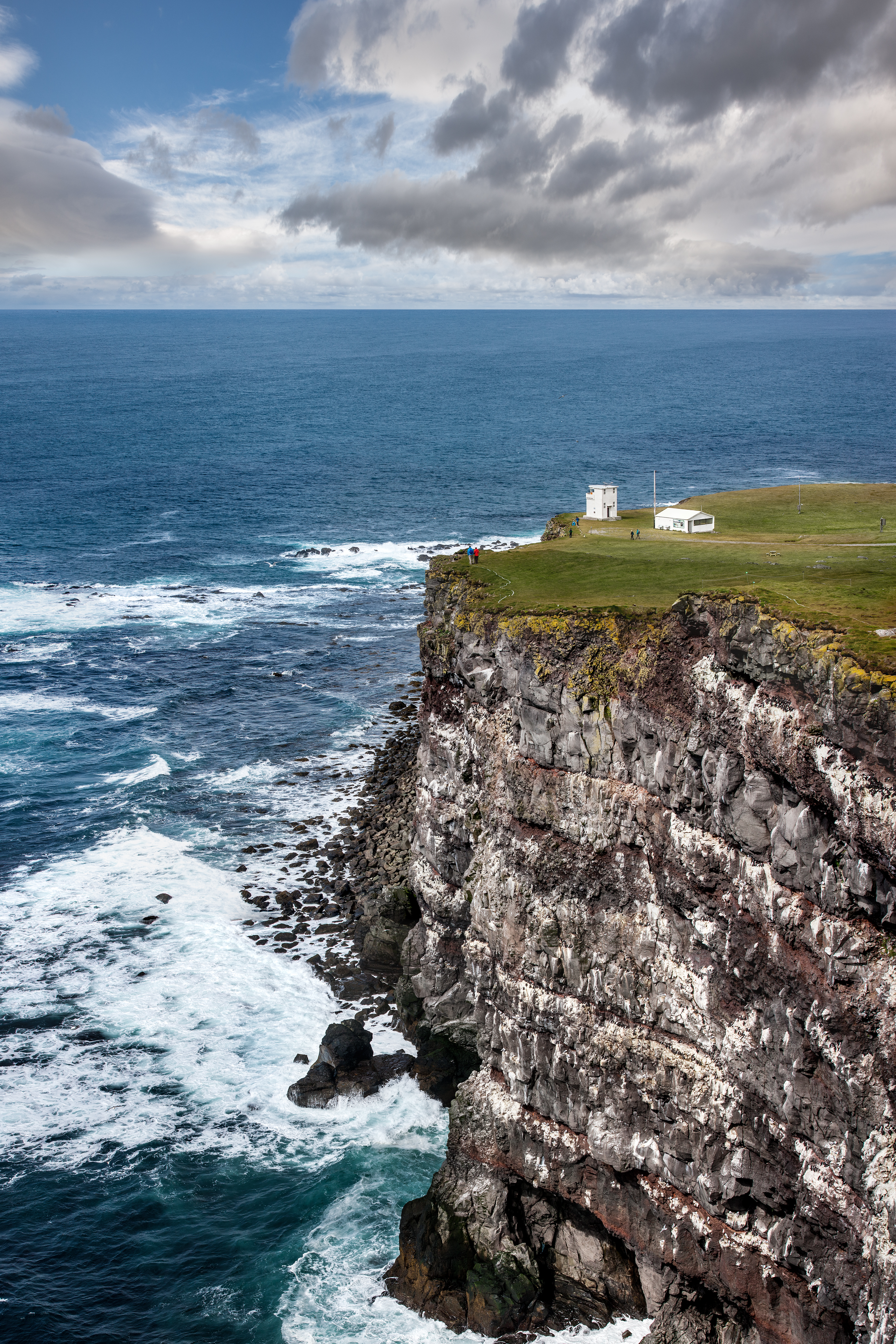 The Látrabjarg cliffs on the Vestfirðir coast in Iceland